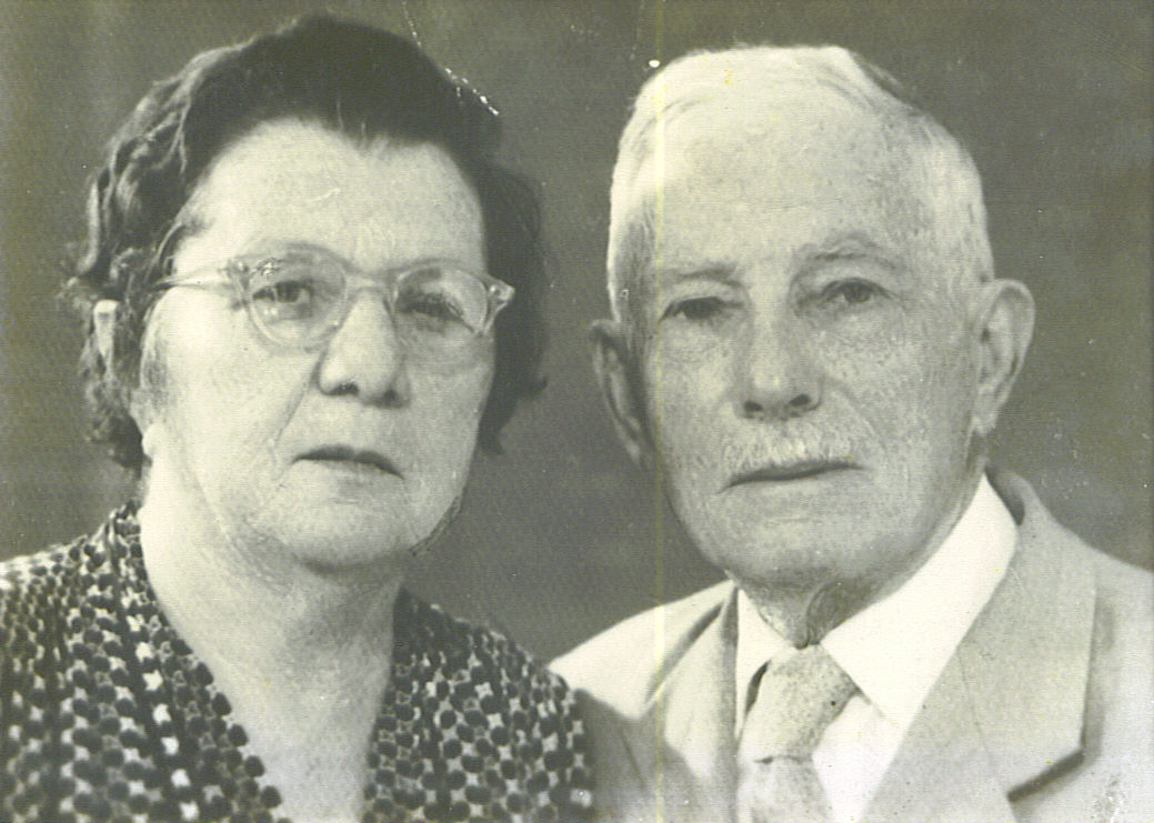 Devorah and Menachem Gilutz